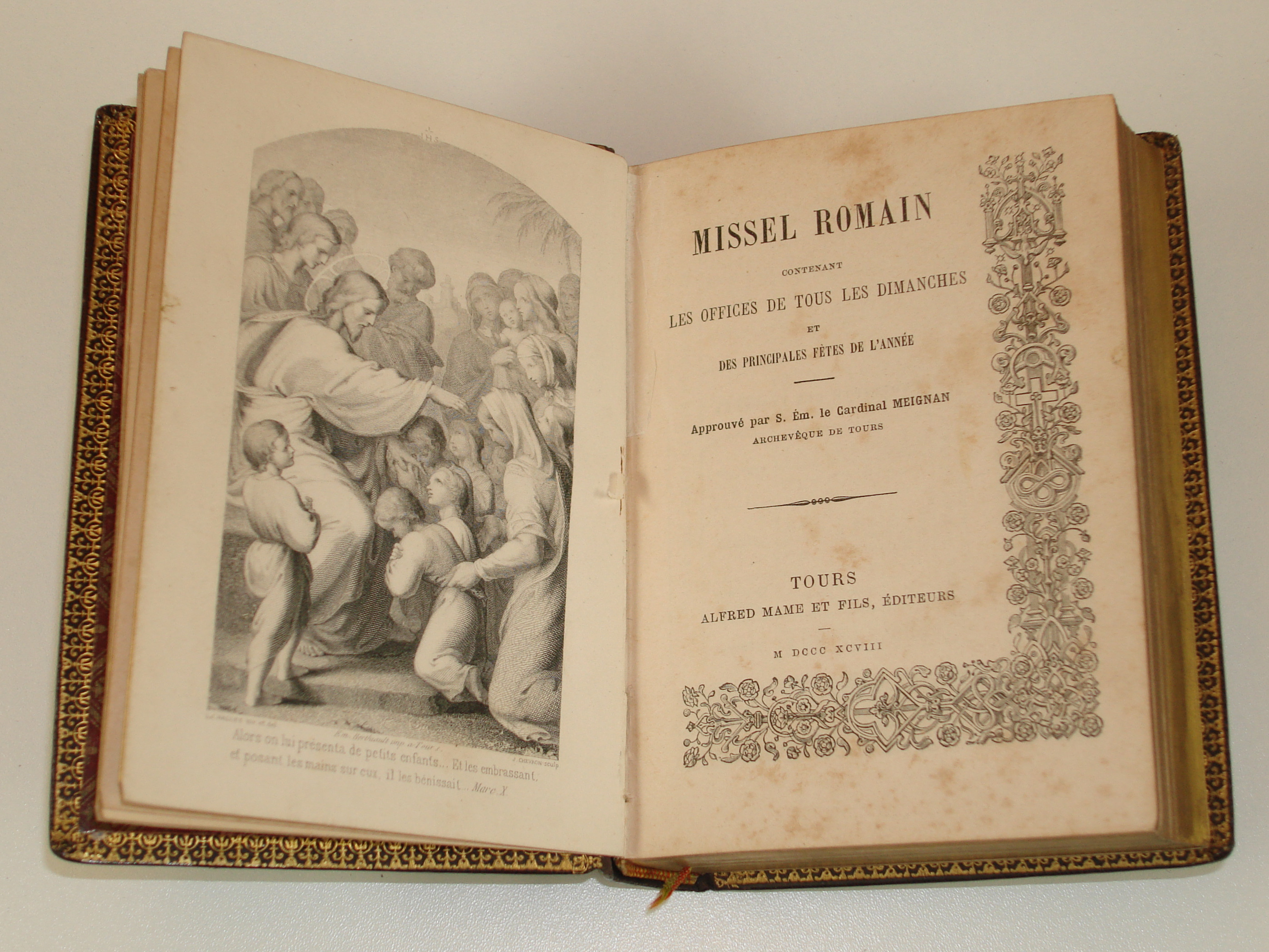 French missal